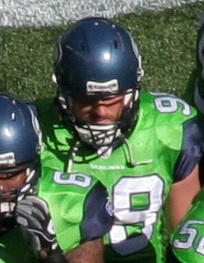 Seattle Seahawks players, 2009